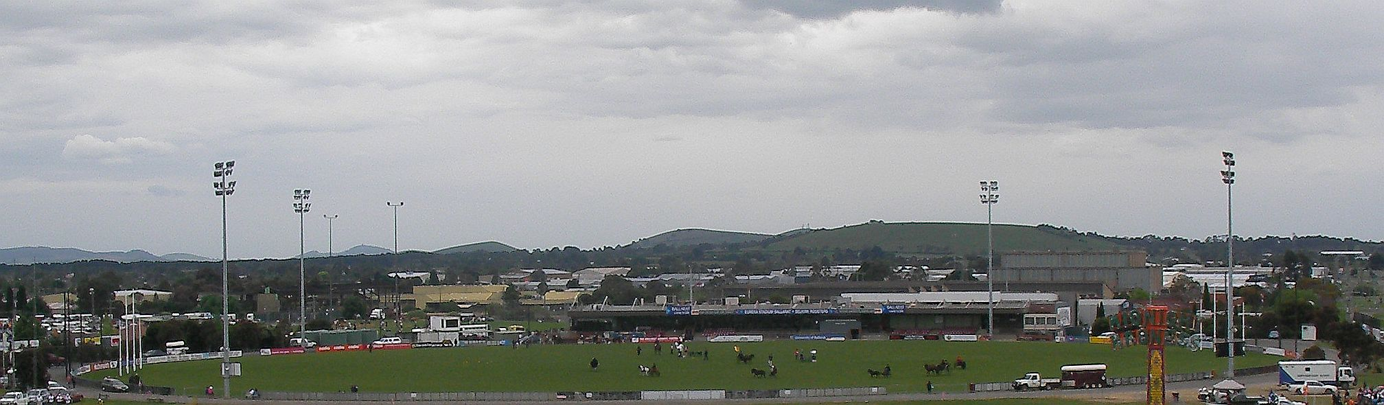 Looking north toward Eureka Stadium from Ballarat Showgrounds in Wendouree.